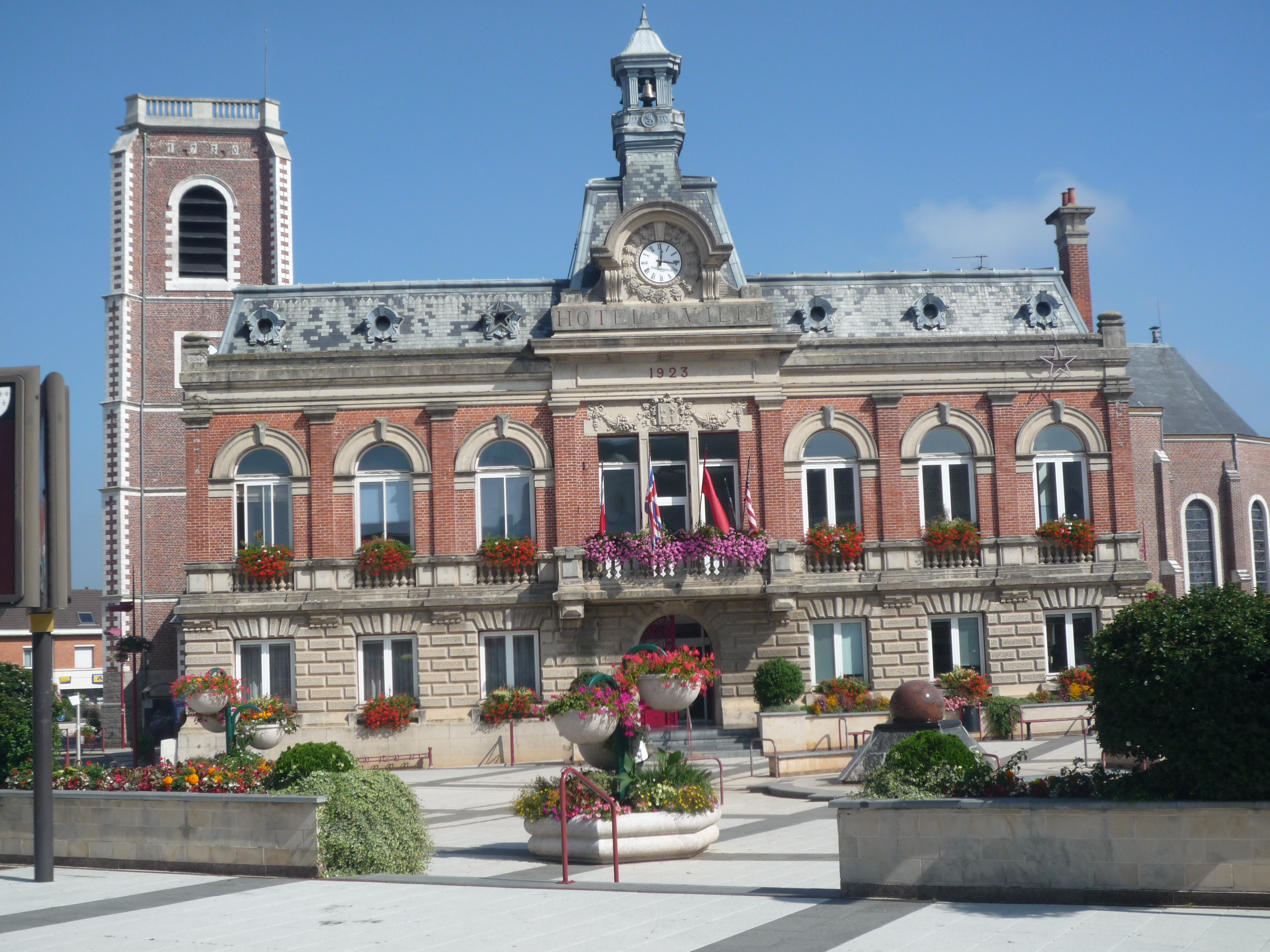 Depicted place: Q63197159